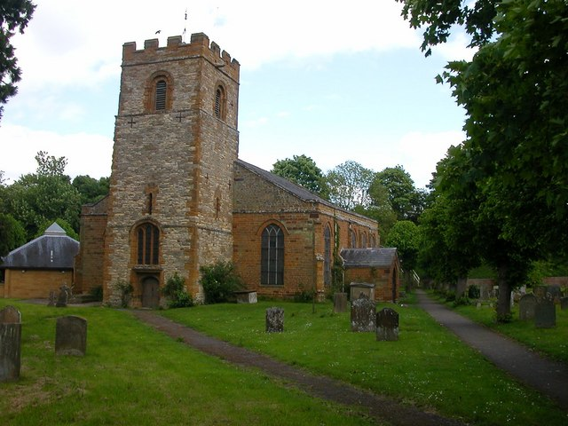 Weedon Church Saint Peter's Church nestling between the Grand Union Canal and the West Coast Mainline.